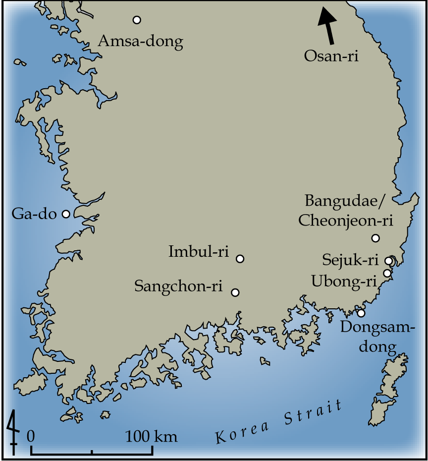 map of the jeulmun archeological sites